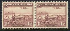 1937, 1 1/2d stamp issued by South West Africa